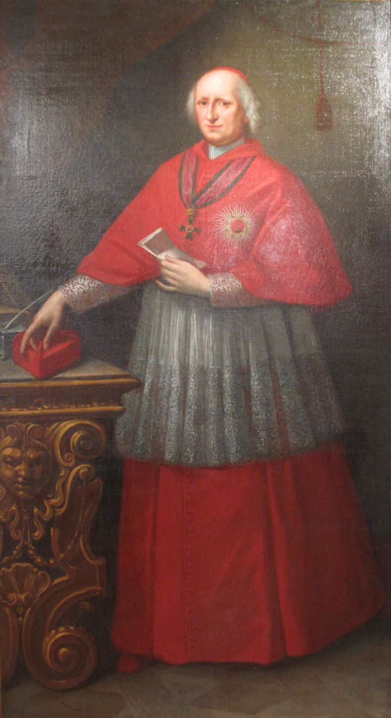 Anonymous 18th century, painting of Card Giuseppe Pozzobonelli Archbishop of Milan, Diocesan Museum of Milan